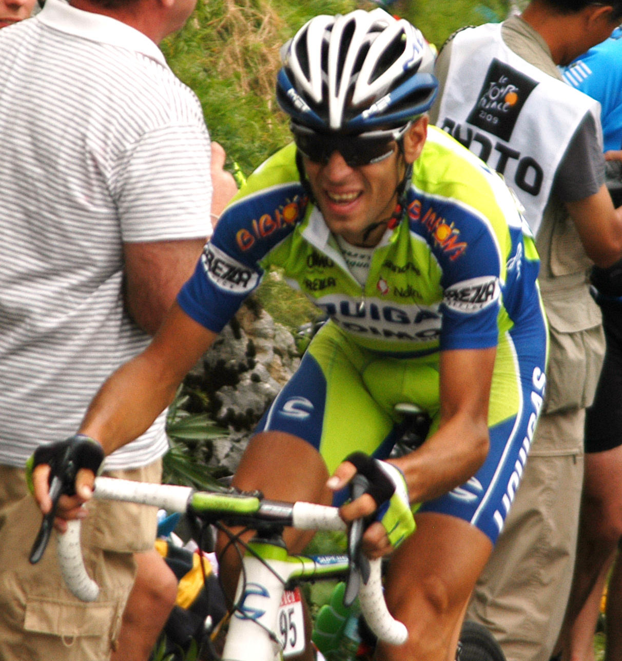 Vincenzo Nibali (ITA) at stage 17 of the 2009 Tour de France on the Col de la Colombière.